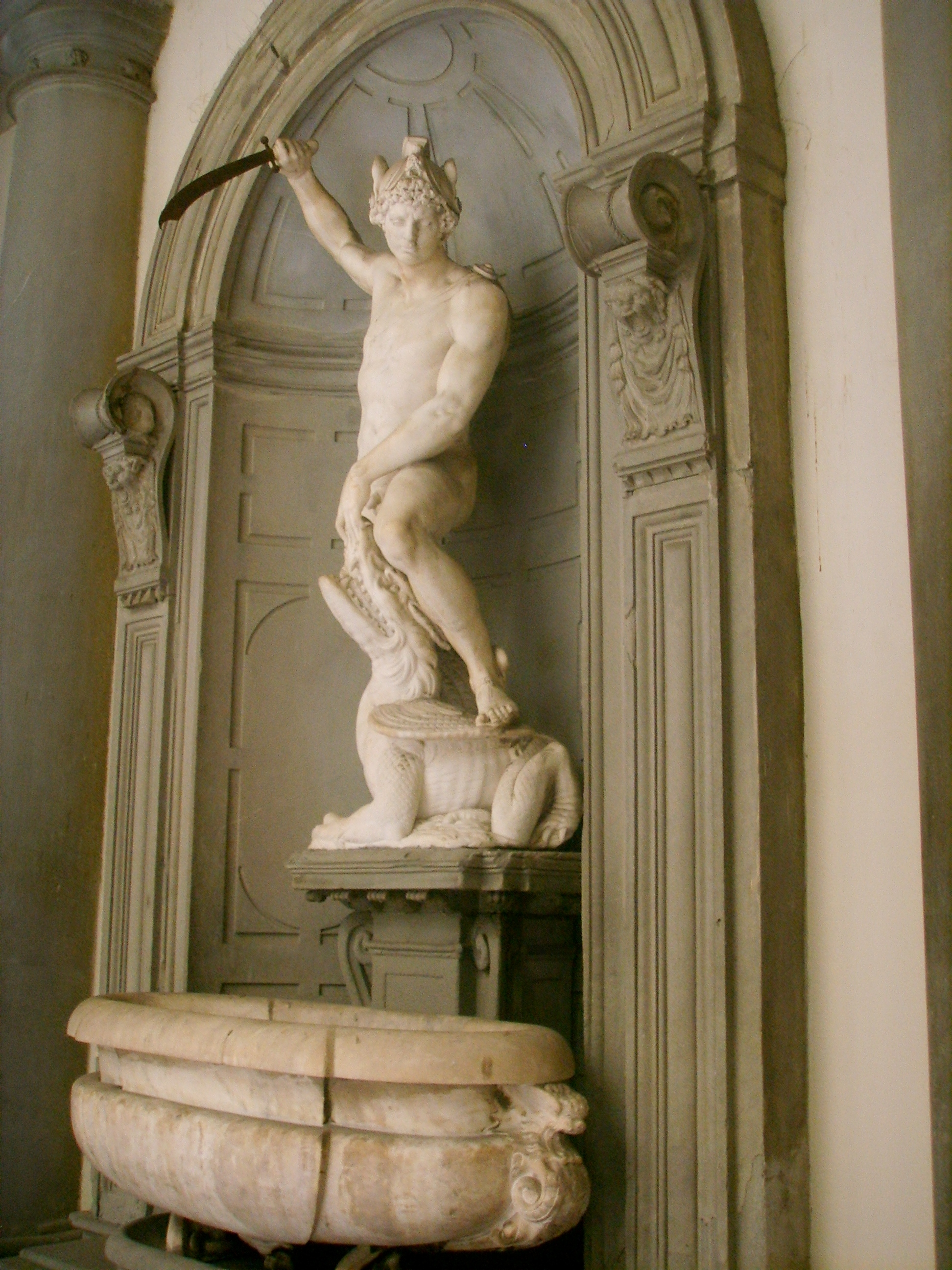 Palazzo_Nonfinito courtyard's fountain in Florence, italy